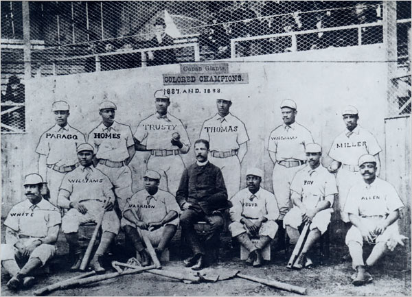 Photo of the 1887-88 Cuban Giants